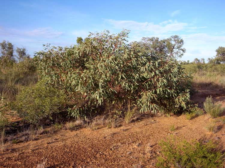 Habit of Eucalyptus ammophila at Aramac Range, 80km NW of Barcaldine, Queensland